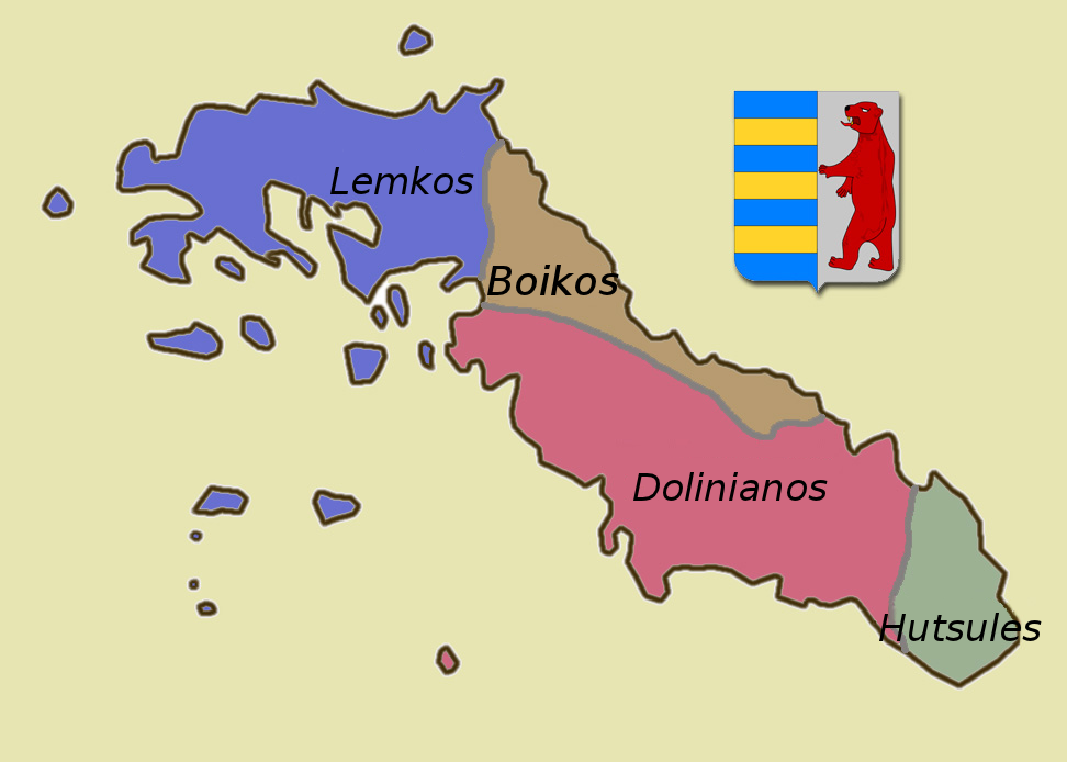 Subethnoses of Rusyns